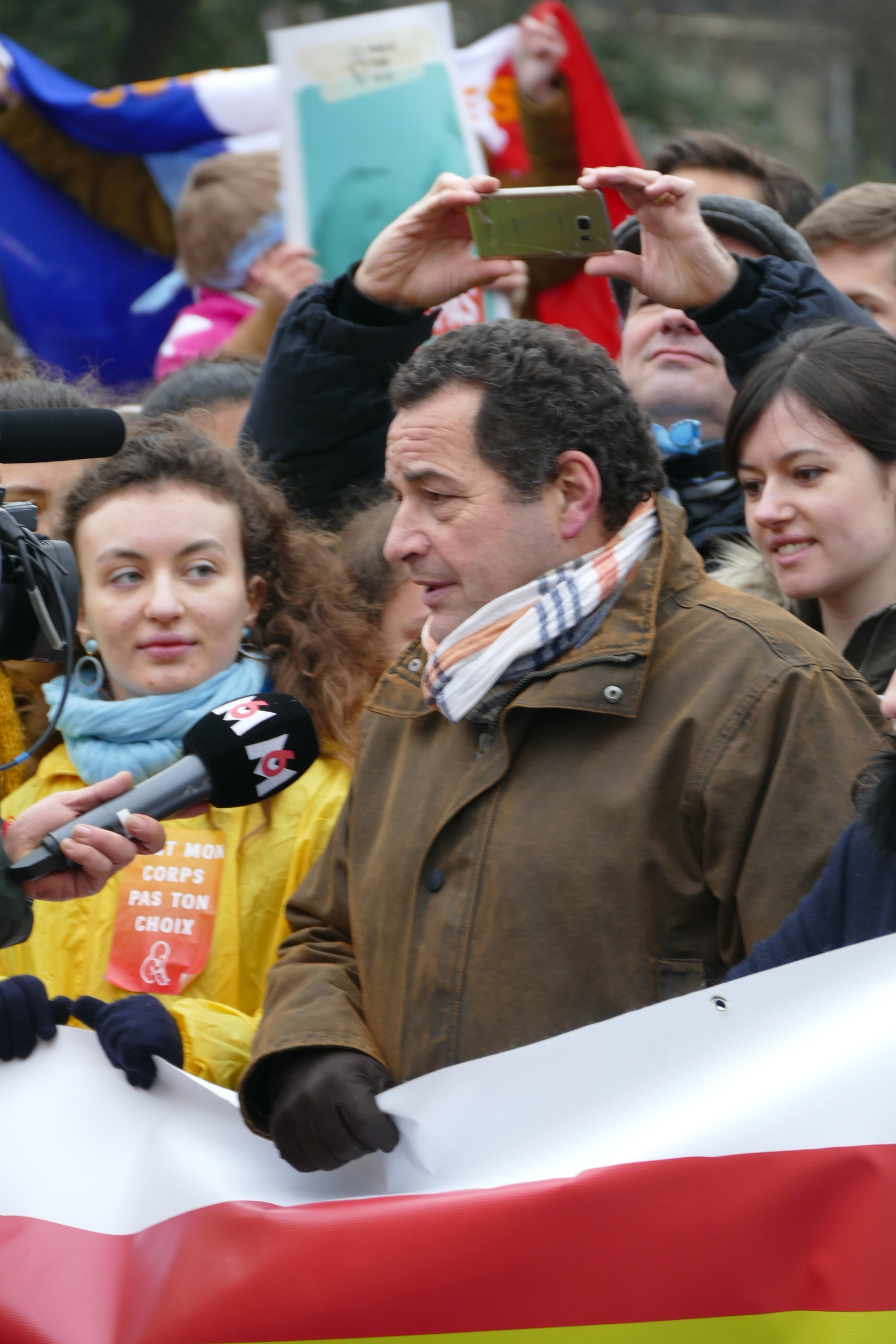 March for Life 2019 in Paris (Île-de-France, France).